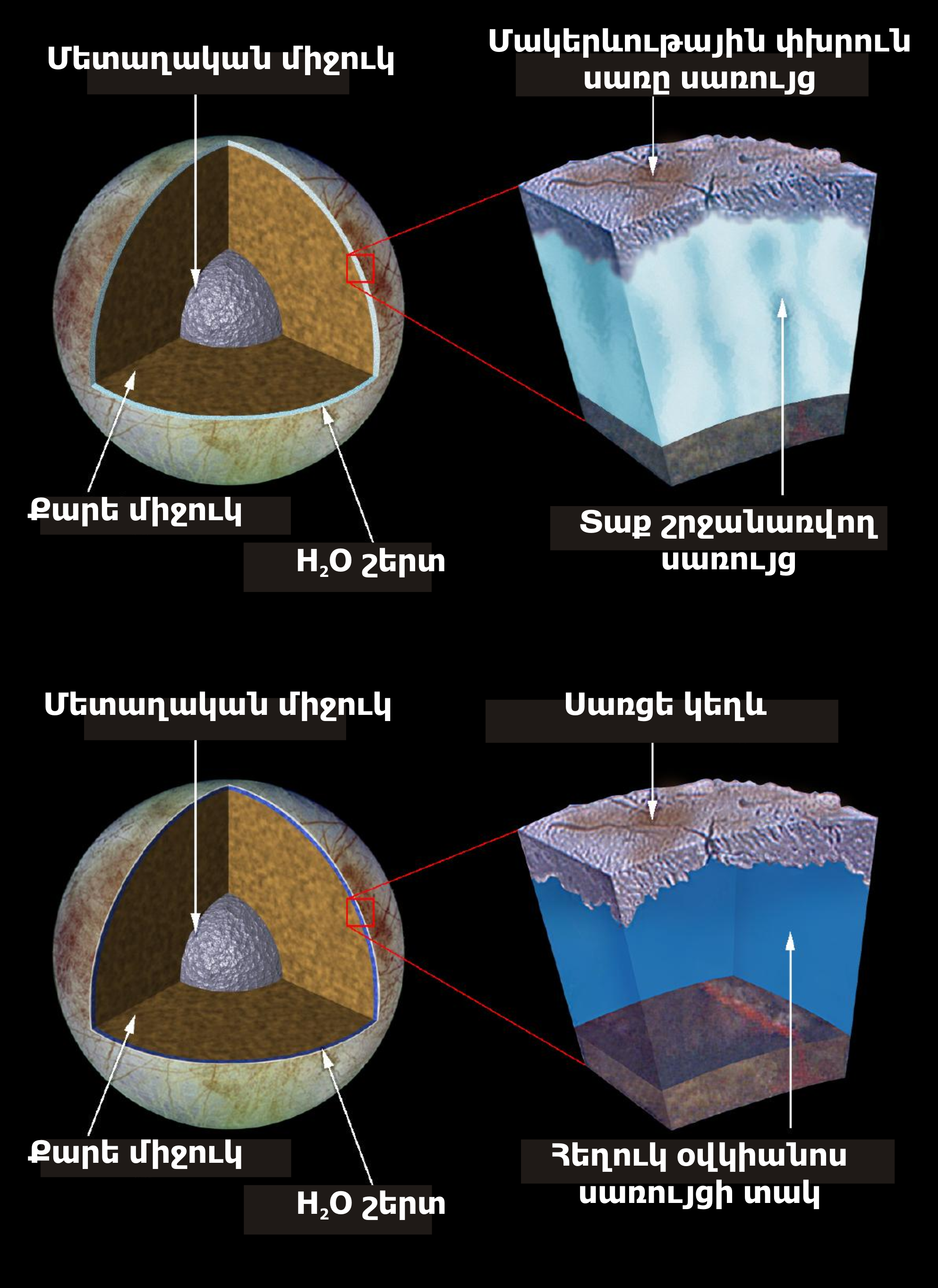 Հայերեն` Եվրոպայի ներքին կառուցվածքը Model of Europa's subsurface structure. Original caption released with image: These artist's drawings depict two proposed models of the subsurface structure of the Jovian moon, Europa. Geologic features on the surface, imaged by the Solid State Imaging (SSI) system on NASA's Galileo spacecraft might be explained either by the existence of a warm, convecting ice layer, located several kilometers below a cold, brittle surface ice crust (top model), or by a layer of liquid water with a possible depth of more than 100 kilometers(bottom model). If a 100 kilometer (60 mile) deep ocean existed below a 15 kilometer (10 mile) thick Europan ice crust, it would be 10 times deeper than any ocean on Earth and would contain twice as much water as Earth's oceans and rivers combined. Unlike the Earth, magnesium sulfate might be a major salt component of Europa's water or ice, while the Earth's oceans are salty due to sodium chloride (common salt). While data from various instruments on the Galileo spacecraft indicate that an Europan ocean might exist, no conclusive proof has yet been found. To date Earth is the only known place in the solar system where large masses of liquid water are located close to a solid surface. Other sources are especially interesting since water is a key ingredient for the development of life as we know it.